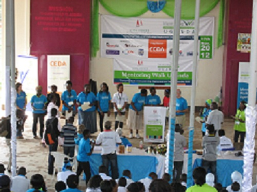 mentoring activities at the cultural Centre, Bukoto